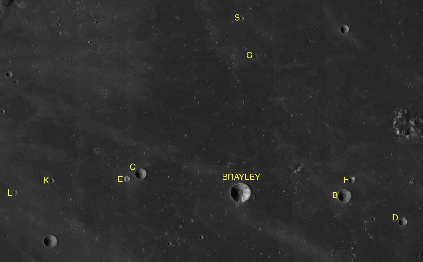 Part of the LAC-39 chart used for the presentation